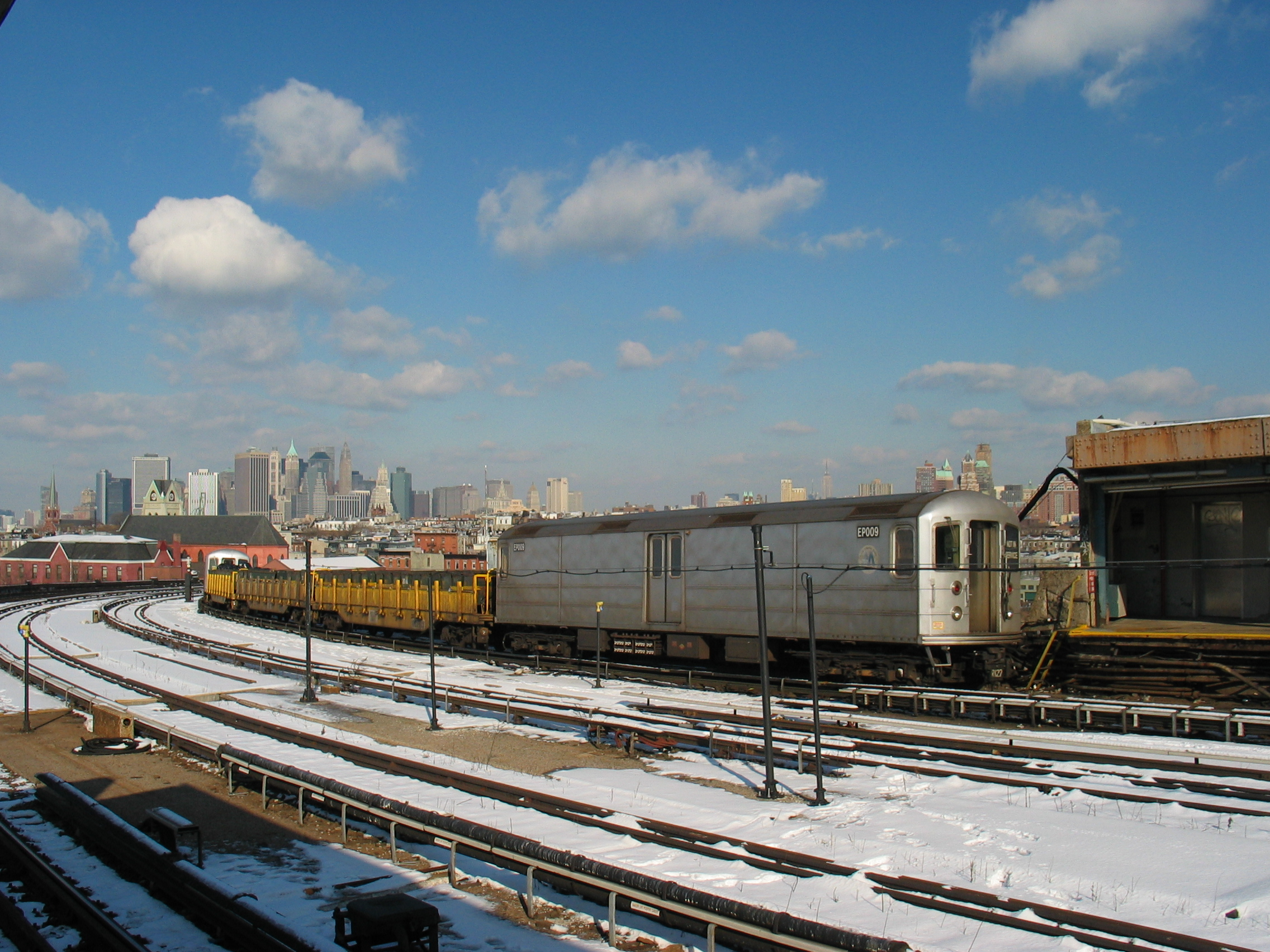 Maintenance train leaving Smith and 9th Street station. Manhattan skyline in the background.